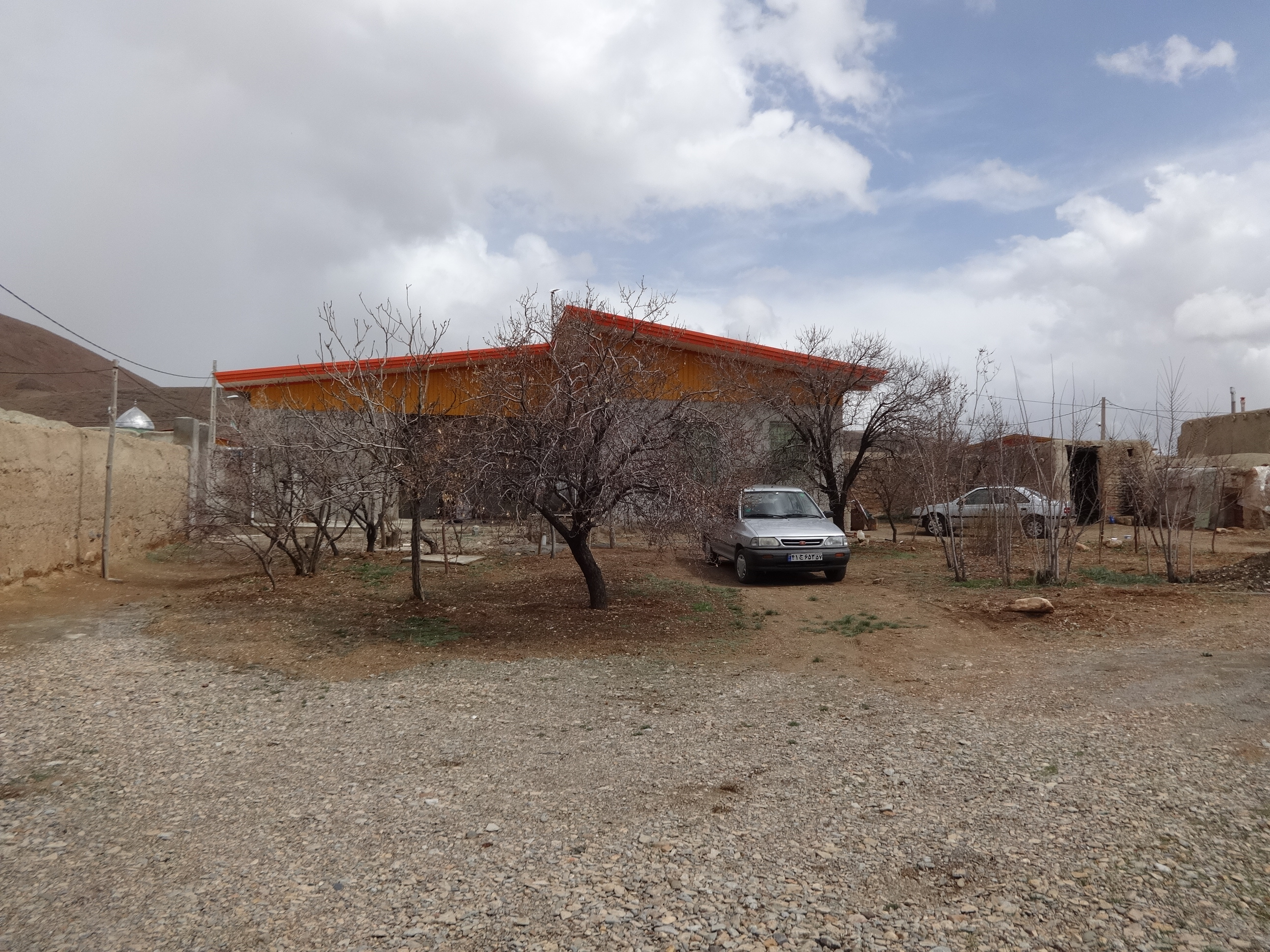 آهودر